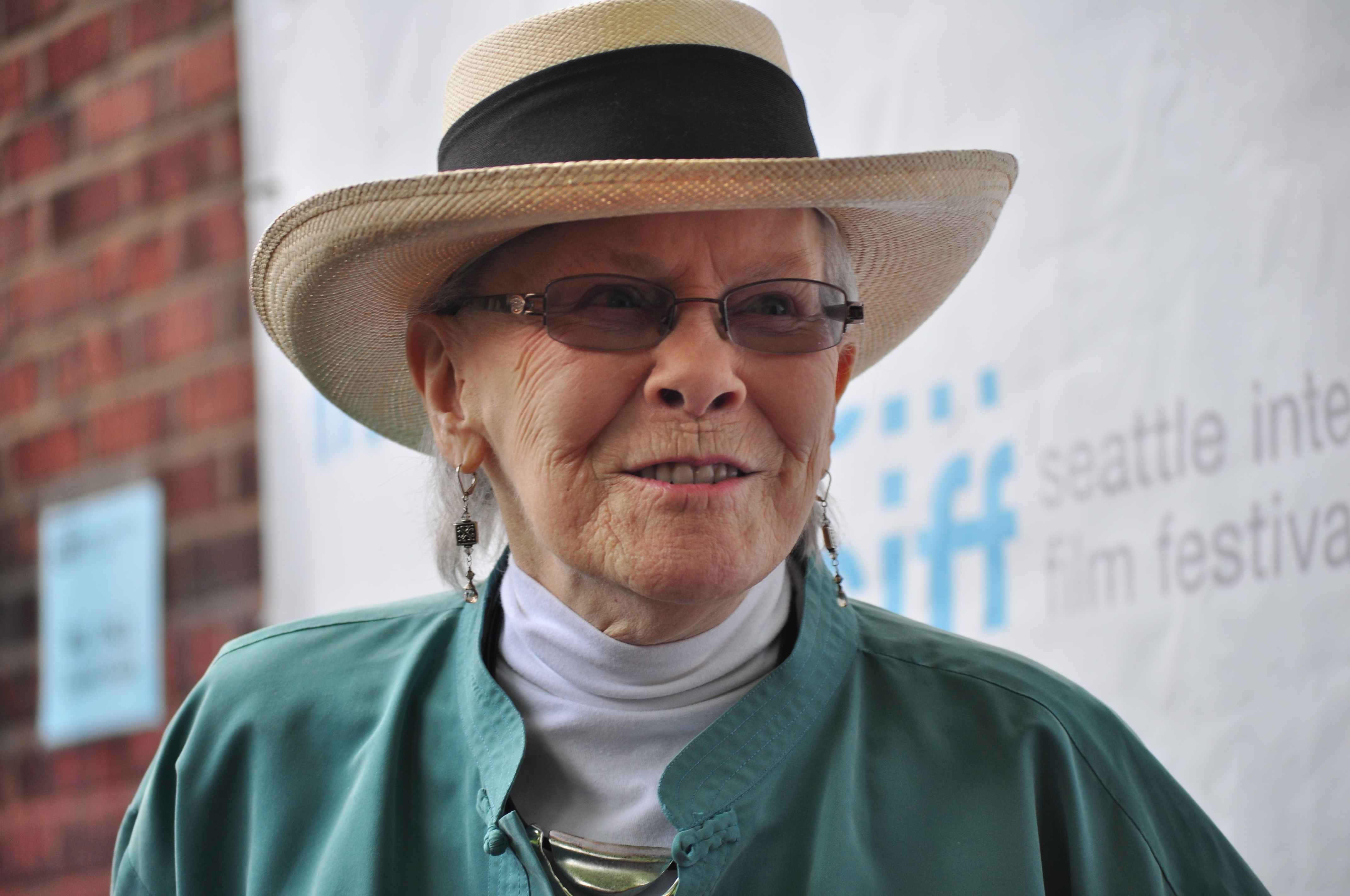 Photographer Jini Dellaccio at the world premiere of the documentary film Her Aim Is True (about Dellaccio) Seattle International Film Festival, Seattle, Washington, USA, May 26, 2013.